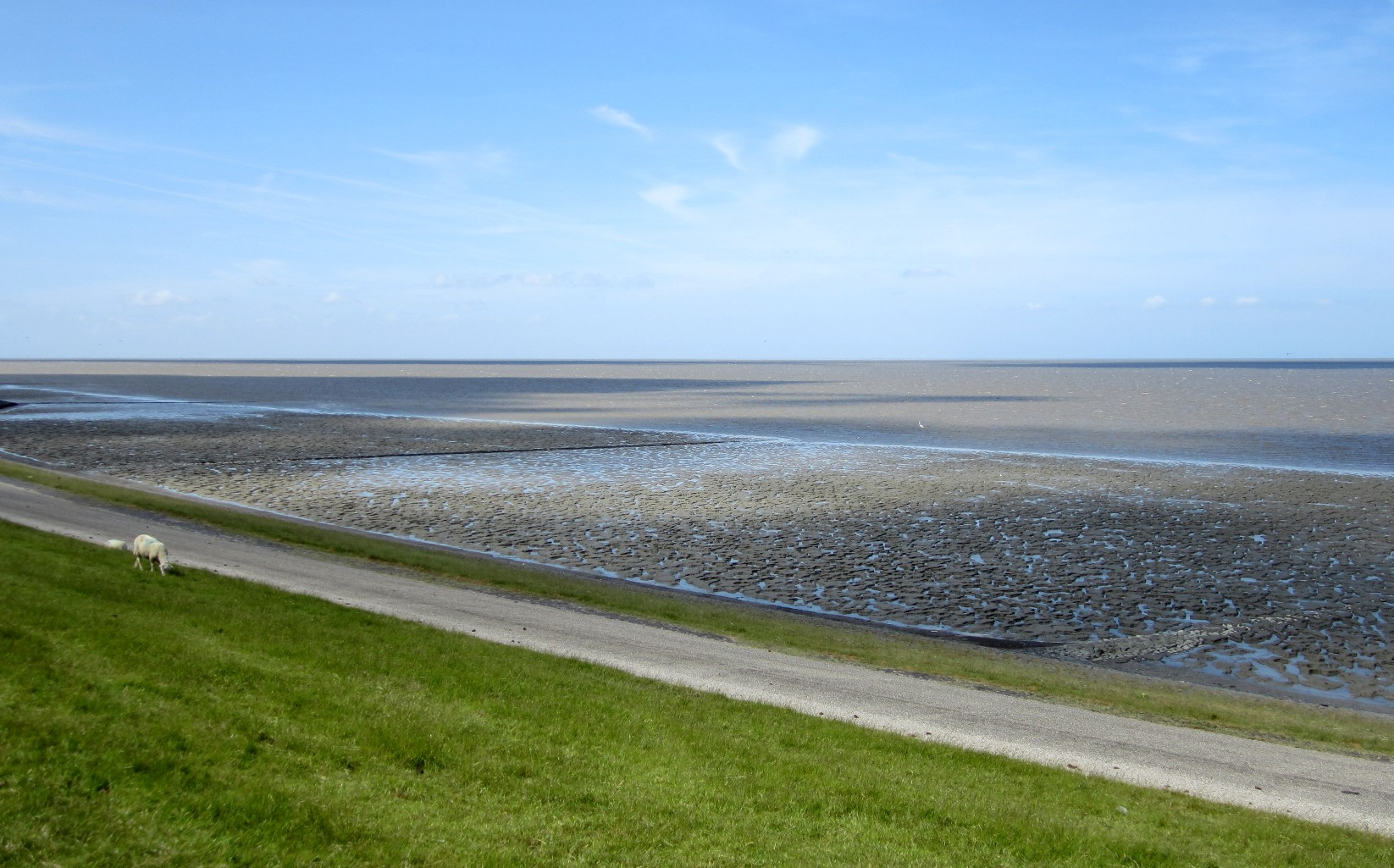 The sea dike at Easterbierrum (Oosterbierum), Friesland, the Netherlands, incoming tide.